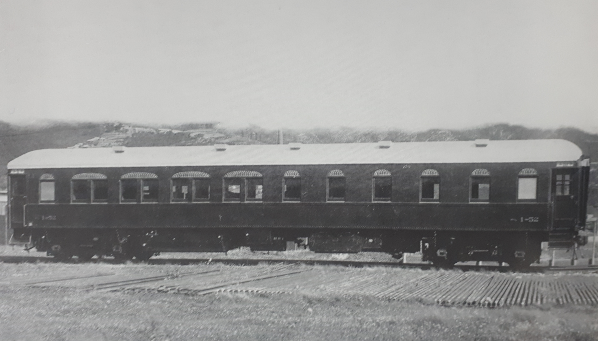 RoHa3 class mixed 2nd and 3rd class carriage of the South Manchuria Railway, built by Kisha Seizo.